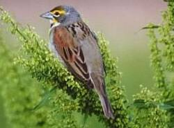 Dickcissel (Spiza americana) from US Forest Service.